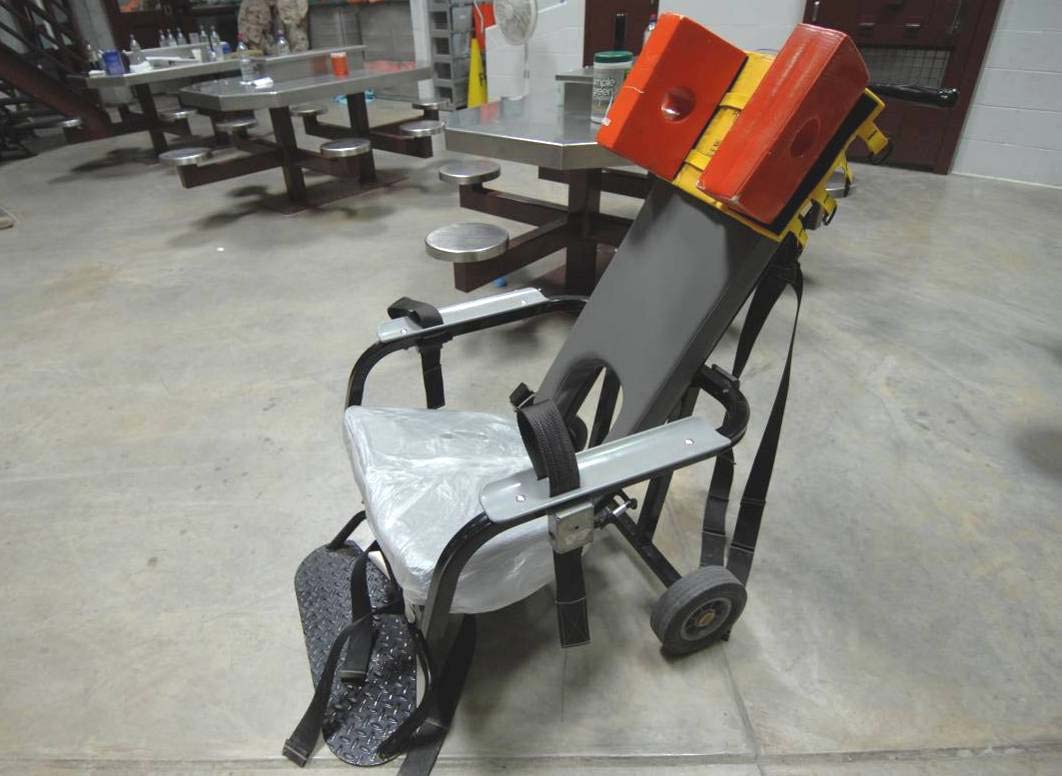 Guantanamo Restraint_chair_used_for_enteral_feeding. Guantanamo captives were subjected to involuntary force-feeding when they had skipped nine consecutive meals. In January 2006 the camp's medical staff were authorized to strap captives into the restraint chair, for their force-feeding, and a period long enough afterwards to prevent the captives defeating their force-feeding by inducing vomiting. Note the plastic bag protecting the seat cushion. Guantanamo captives report they were routinely immobilized so long they could no longer control their bladder and bowels and soiled themselves.